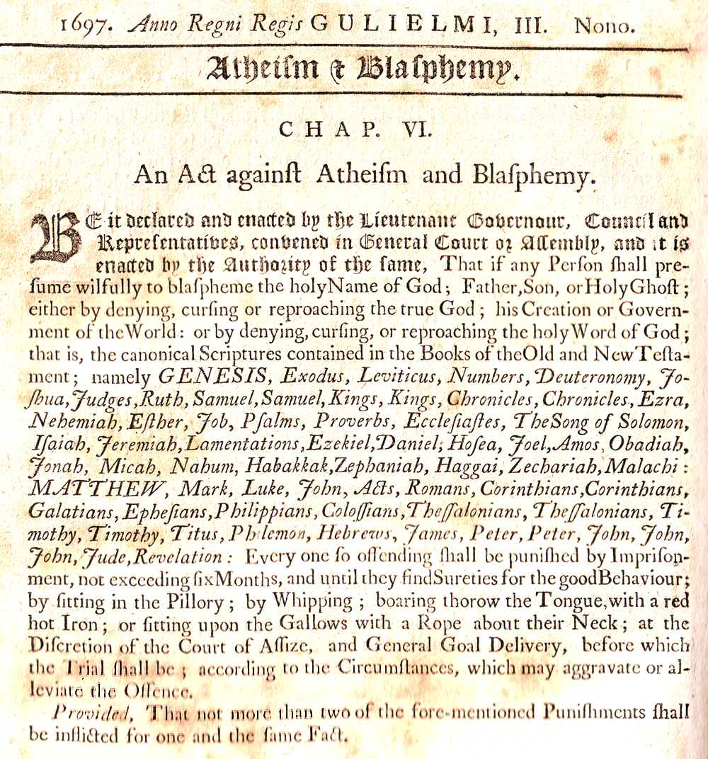 An Act against Atheism and Blasphemy, Massachusetts Bay Colony, 1697 Transcription: 1697. Anno Regni Regis G U L I E L M I, III Nono. Atheism & Blasphemy C H A P. VI An Act against Atheism and Blasphemy. BE it declared and enacted by the Lieutenant Governor, Council and Representatives, convened in General Assembly, and it is enacted by the Authority of the same, That if any Person shall presume willfully to blaspheme the holy Name of God, Father, Son, or Holy Ghost; either by denying, cursing or reproaching the true God; his Creation or Government of the World: or by denying, cursing, or reproaching the holy Word of God; that is the canonical Scriptures contained in the Books of the Old and New Testaments; namely GENESIS, Exodus, Leviticus, Numbers, Deuteronomy, Joshua, Judges, Ruth, Samuel, Samuel, Kings, Kings, Chronicles, Chronicles, Ezra, Nehemiah, Esther, Job, Psalms, Proverbs, Ecclesiastes, The Song of Solomon, Isaiah, Jeremiah, Lamentations, Ezekiel, Daniel; Hosea, Joel, Amos, Obadiah, Jonah, Micah, Nahum, Habakkuk, Zephaniah, Haggai, Zechariah, Malachi: MATTHEW, Mark, Luke, John, Acts, Romans, Corinthians, Corinthians, Galatians, Ephesians, Philippians, Colossians, Thessalonians, Thessalonians, Timothy, Timothy, Titus, Philemon, Hebrews, James, Peter, Peter, John, John, John, Jude, Revelation: Every one so offending shall be punished by Imprisonment, not exceeding six Months, and until they find Sureties for the good Behaviors; by sitting in Pillory; by Whipping; boaring thorow the Tongue, with a red hot Iron; or sitting upon the gallows with a Rope about their Neck; at the Discretion of the Court of Assize, and General Goal Delivery, before which the Trial shall be; according to Circumstances, which may aggravate or alleviate the Offence. Provided, That not more than two of the fore-mentioned Punishments shall be inflicted for one and the same Fact.